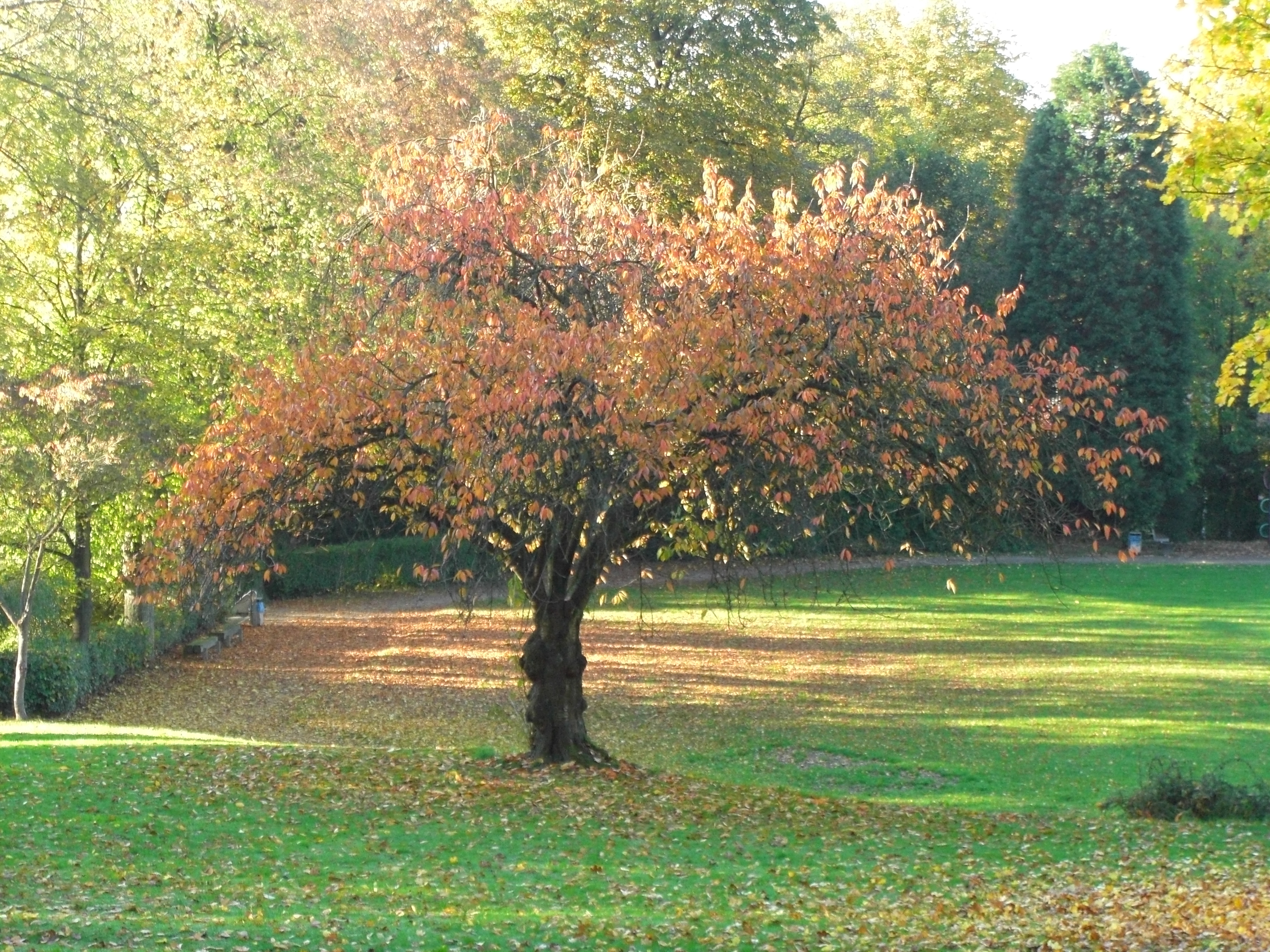 Description: Wülfrath Source: Matthias